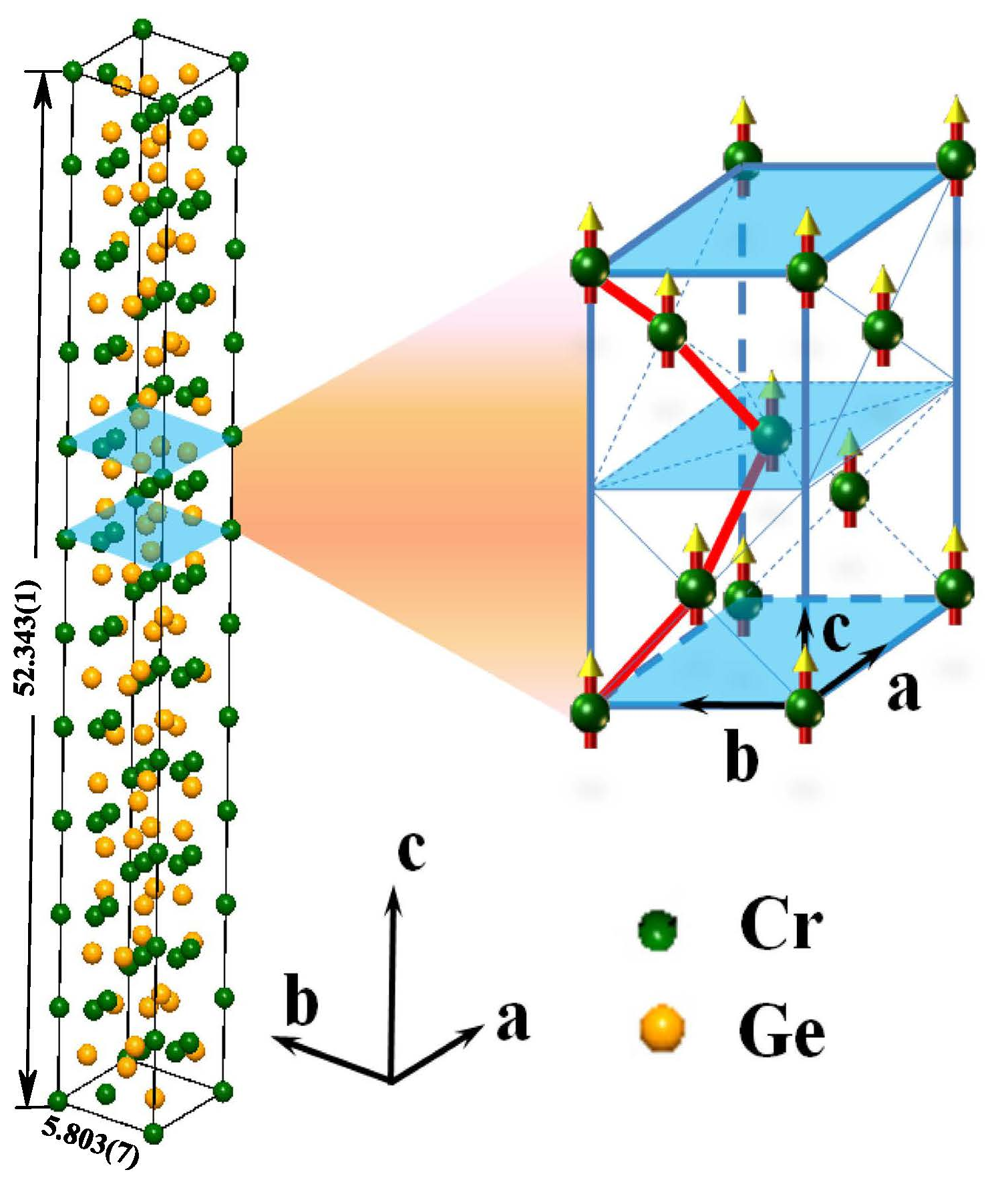 The chiral structure of Cr-Cr bonds and the magnetic structure for Cr11Ge19.